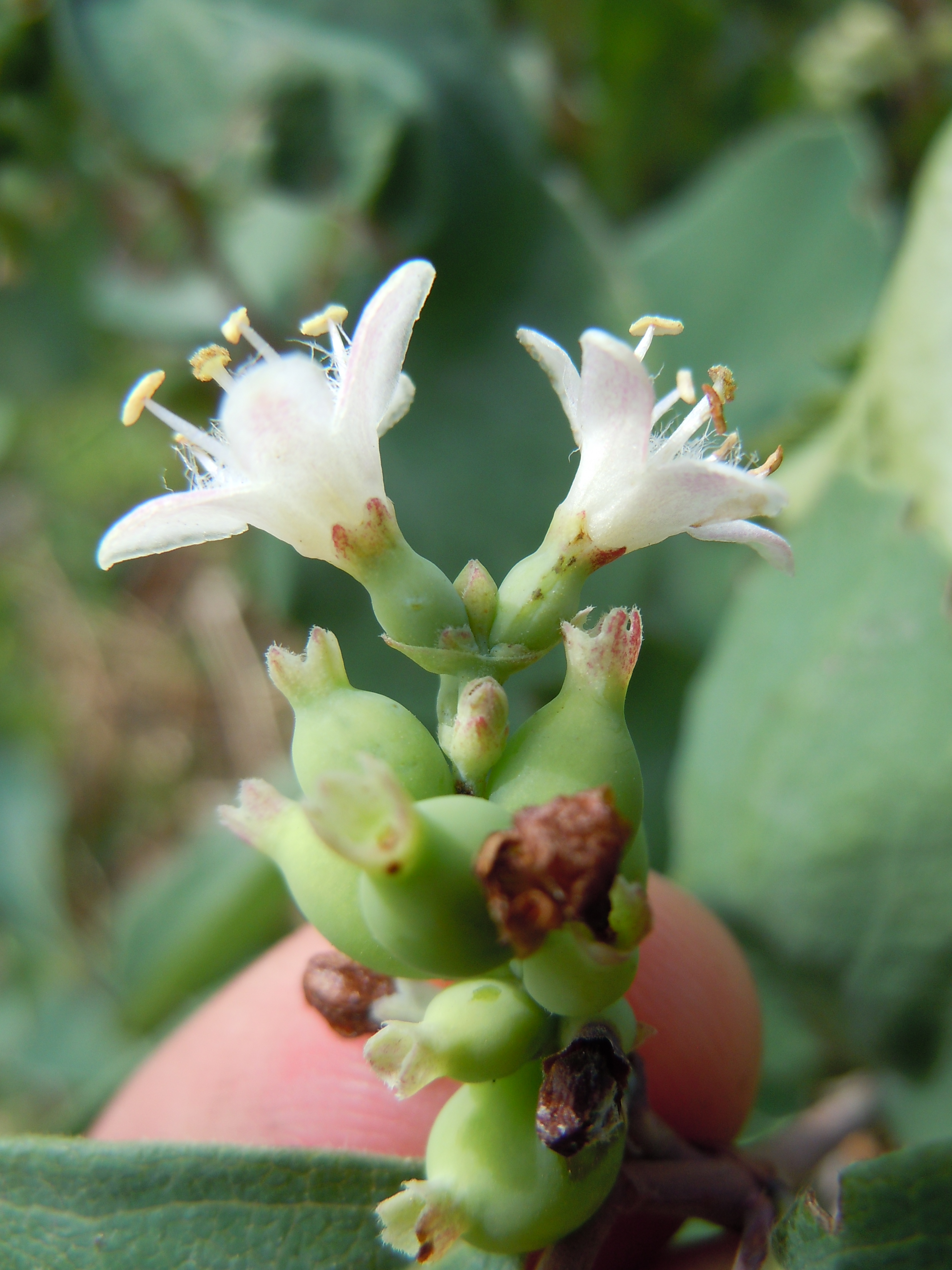 The small anthers (1.5 mm or less) and relatively short (3 mm or less) glabrous style (the hairs come from the inside base of the corolla) are diagnostic of common snowberry.